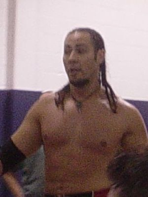 Julio Dinero at an NWA Cyberspace show in September 2005. Cropped from original.